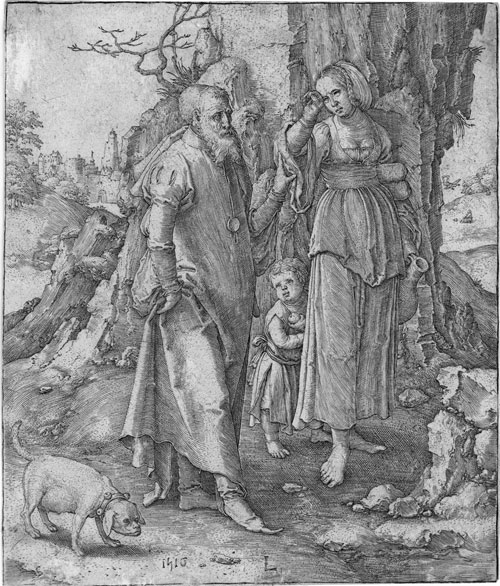 Lot number 5165 Estimated price: € 650 (US$ 845). Bassenge auction house, 2006, lot 5165. B. 18, Volbehr 17, The New Hollstein 18 a. Ausgezeichneter, wenngleich wie üblich grauer Druck mit der Einfassungslinie, teils mit der Spur eines Rändchens um dieselbe, an zwei Stellen knapp auf diese geschnitten. Vereinzelt dünne Stellen im Papier, minimal fleckig, drei kleinere beriebene Stellen im unteren Rand, oben leicht gewellt, sonst in guter Erhaltung.